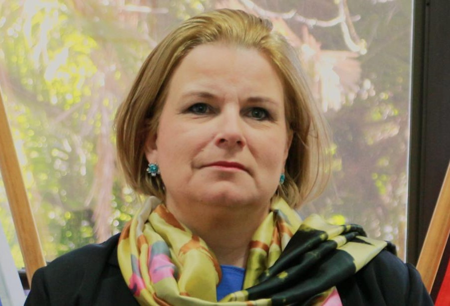 Monika Kończyk, Polish Consul General in Sydney